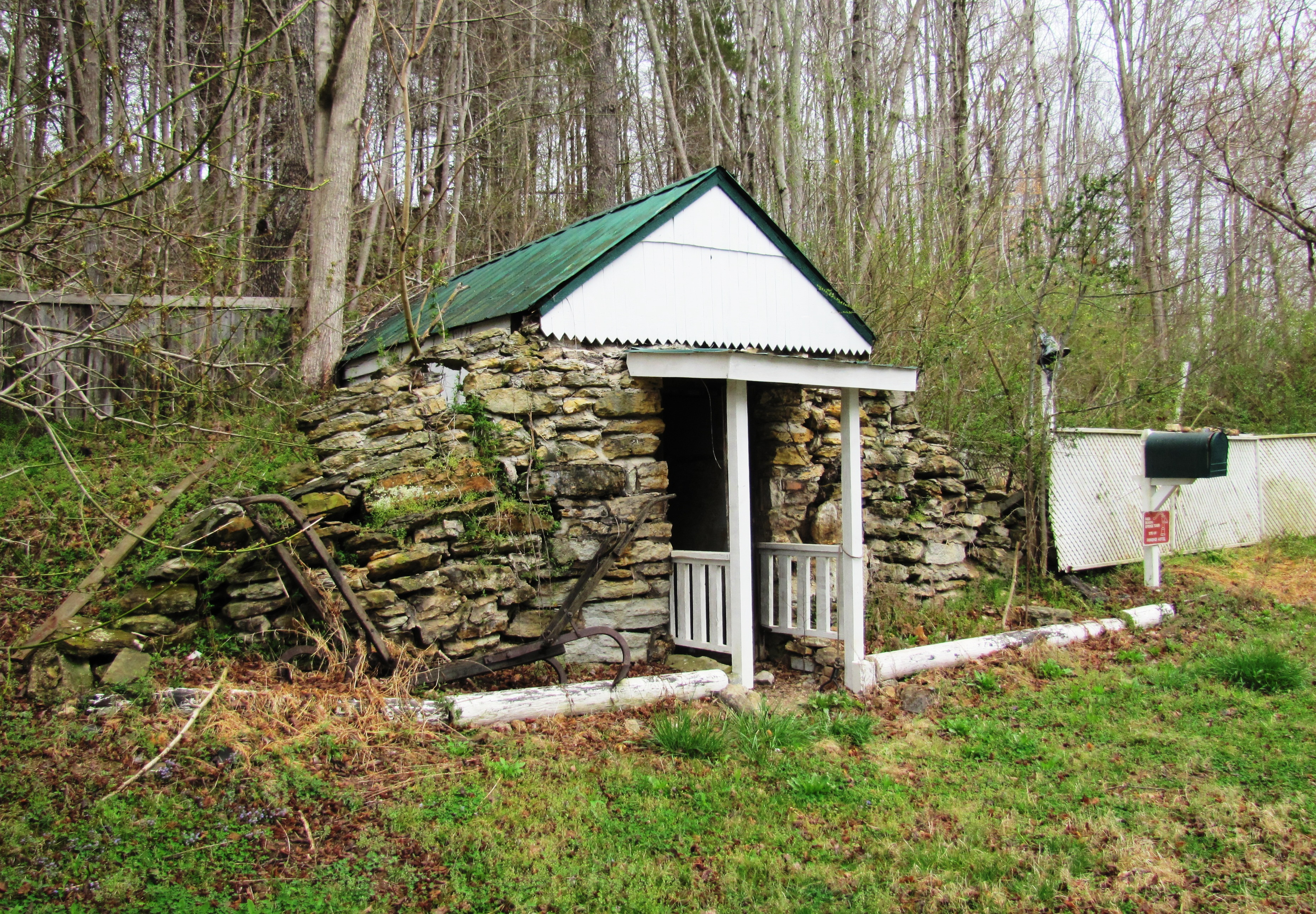 Late 19th-century fruit cellar at the Donoho Hotel in Red Boiling Springs, Tennessee, USA. This fruit cellar is a contributing structure in the NRHP-listed Donoho Hotel Historic District.